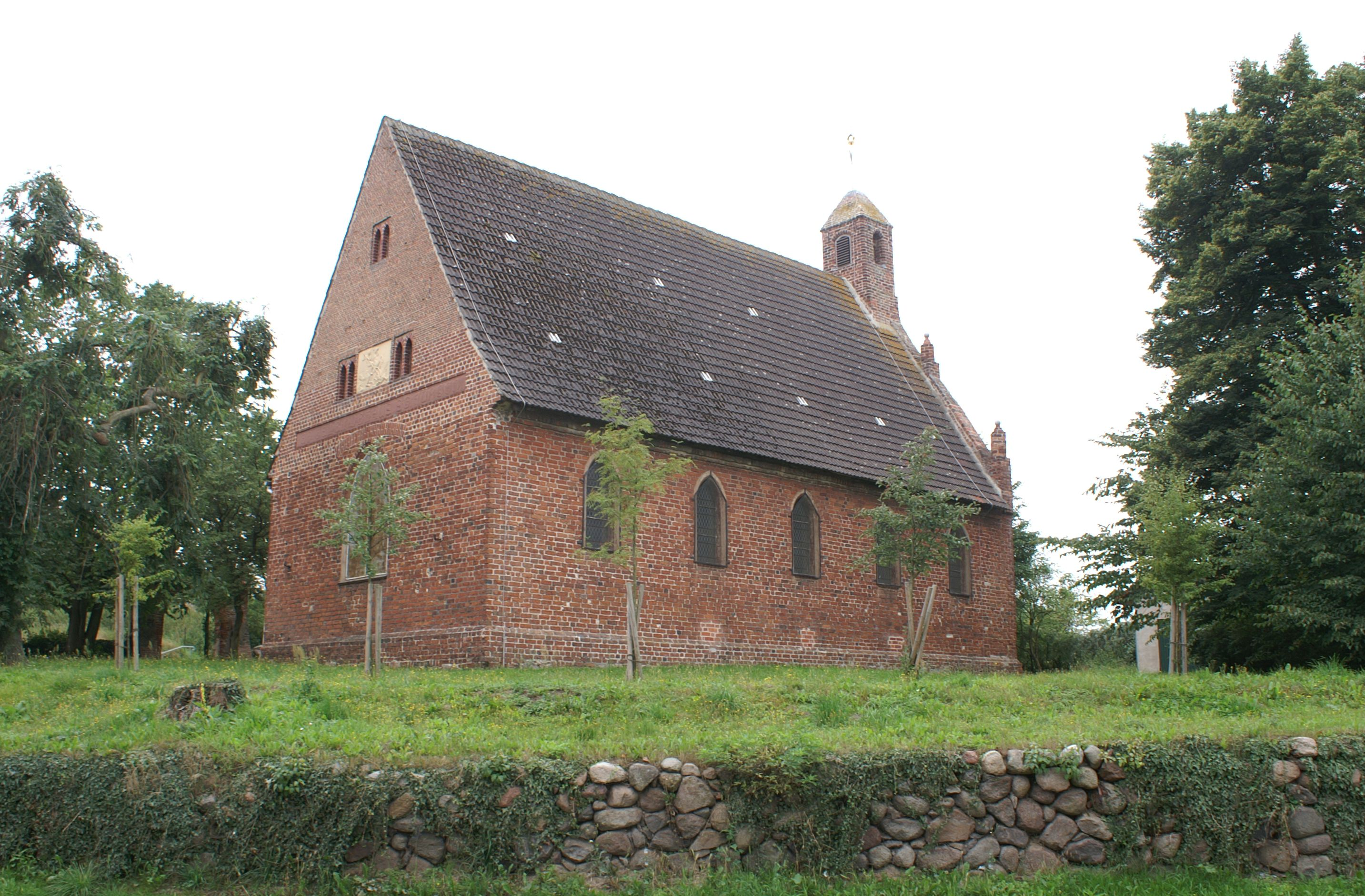 St.-Juergen-Chapel in Wolgast, Germany